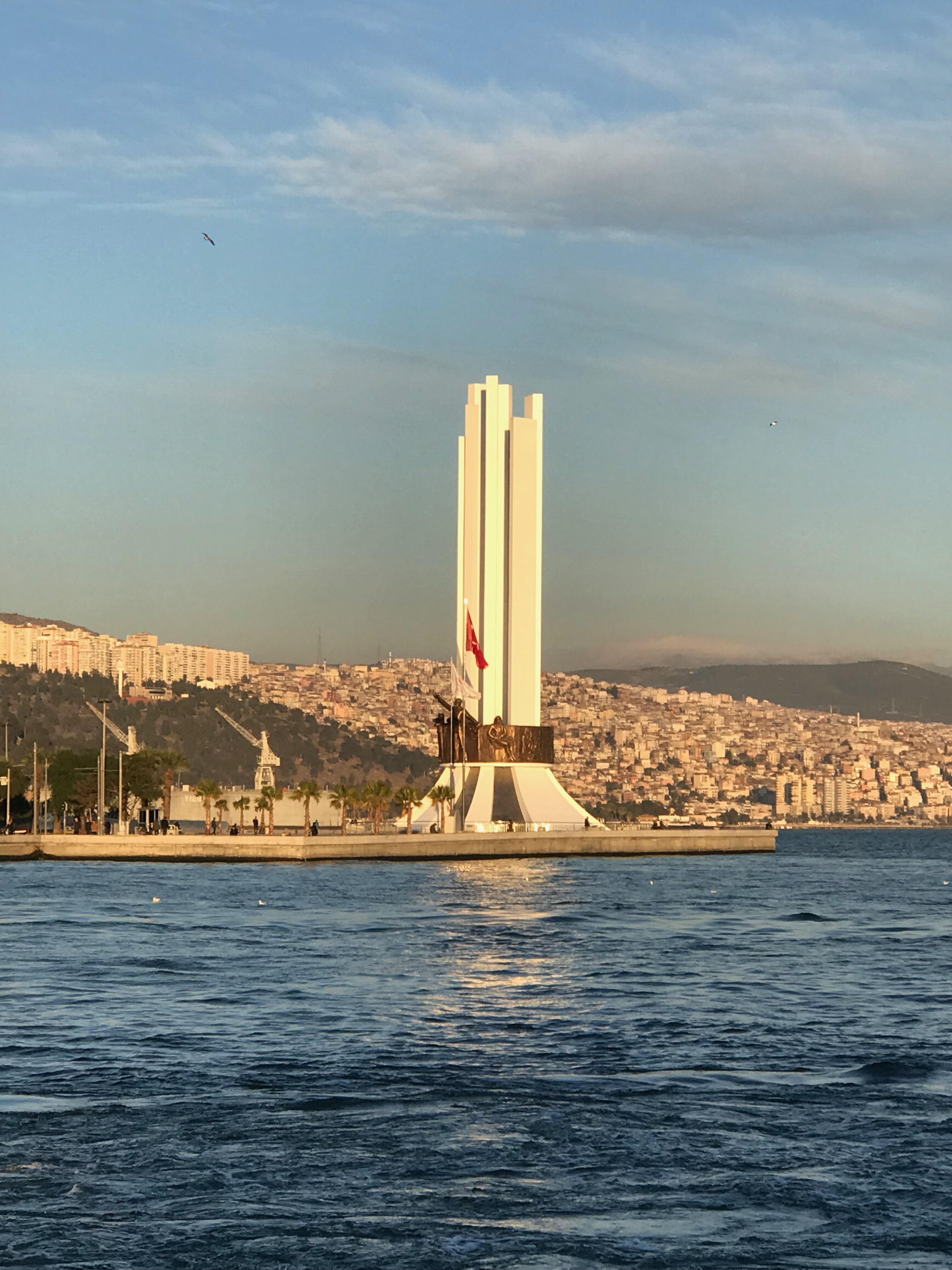 Karşıyaka Monument in İzmir, Turkey. Alaybey Naval Shipyard can be seen in the background.